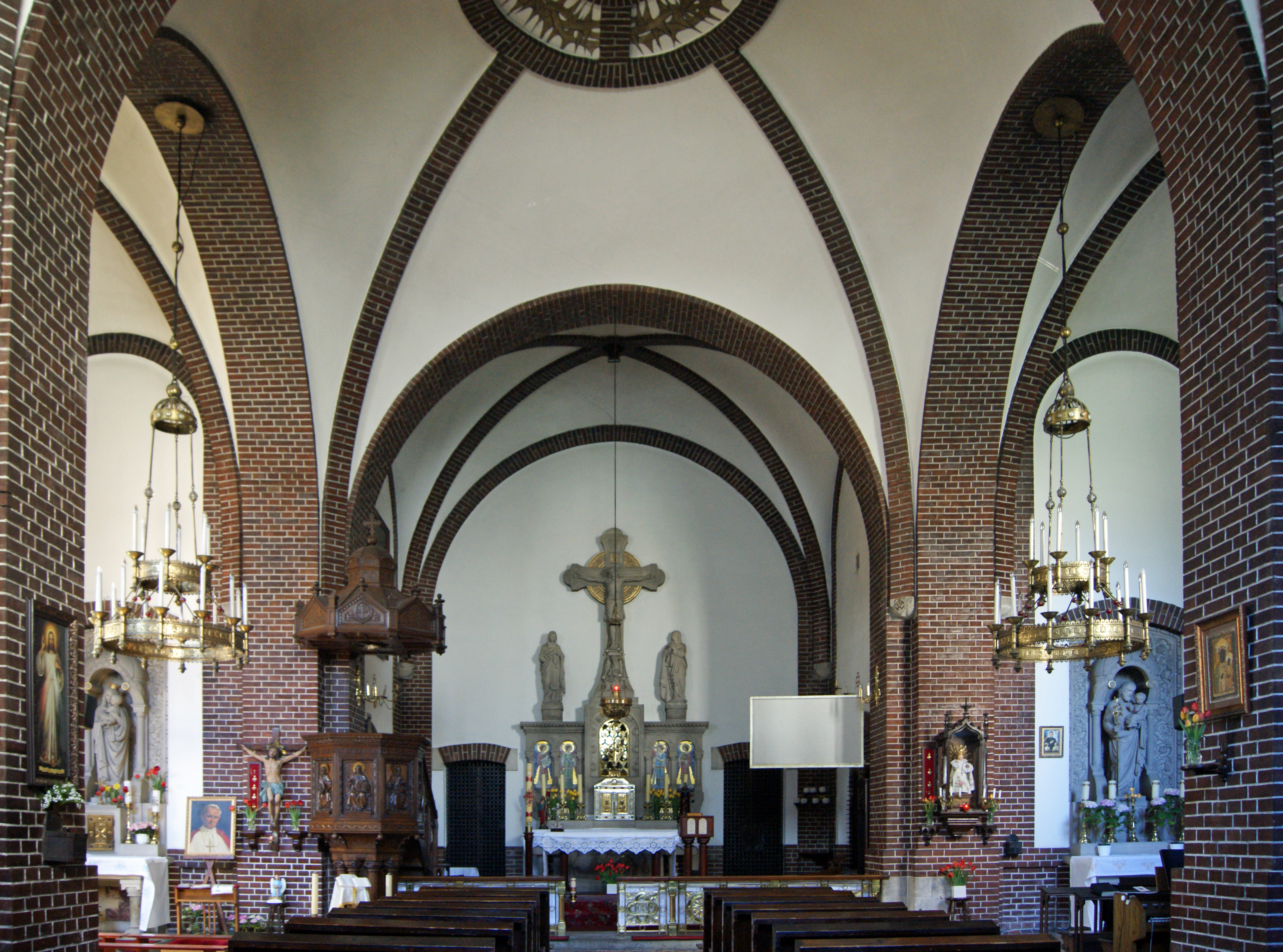 Church of St.Joseph Protection (inside), 40 Lobzowska street,Krakow,Poland